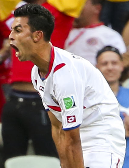 Uruguay and Costa Rica match at the FIFA World Cup 2014-06-14